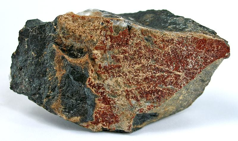 Medaite Locality: Molinello Mine, Graveglia Valley, Ne, Genova Province, Liguria, Italy (Locality at ) Size: 5.9 x 3.2 x 1.8 cm. A thin drusy crust on matrix is the very rare mineral medaite: a manganese, calcium, vanadium arsenic, silicate hydroxide. The medaite has sparkling luster and a rose red color. This specimen is from the type locality in Italy and is, I am told, quite rich for the species.